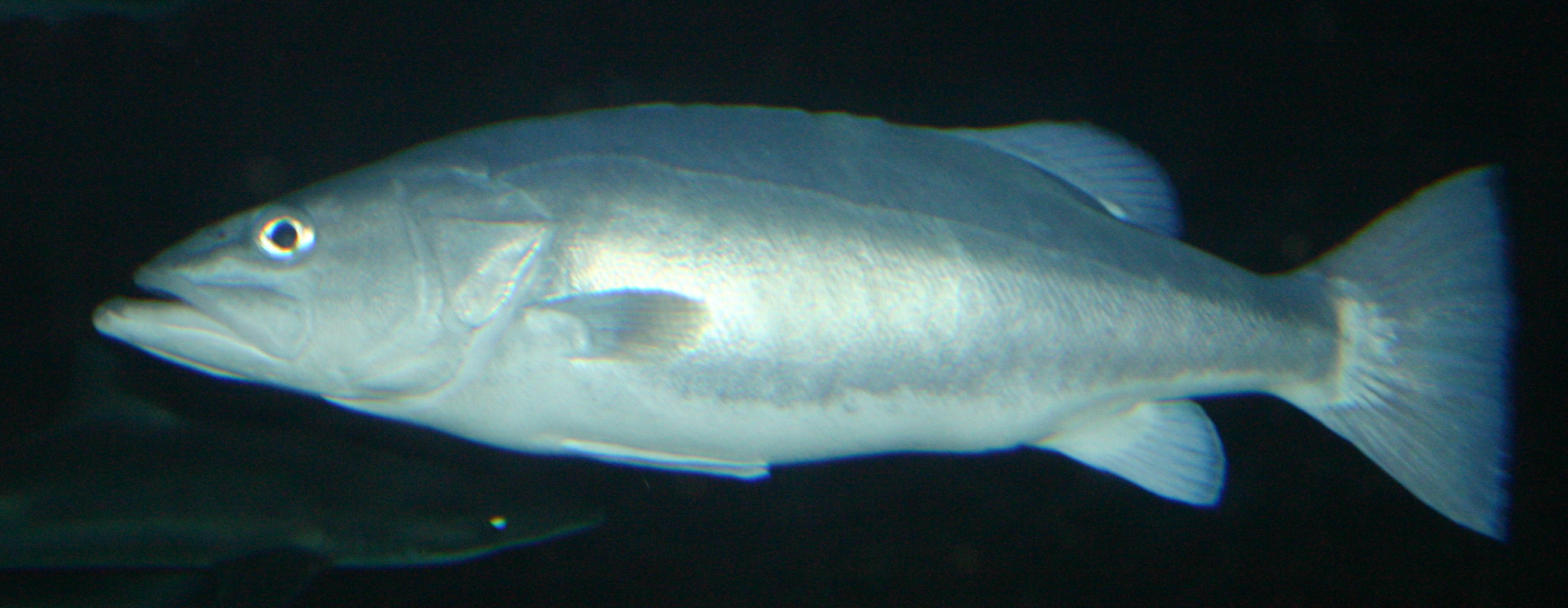 This is a Hapuka (Also called Groper) Polyprion oxygeneios. This photo was taken in Kelly Tarlton's Underwater World in Auckland, New Zealand